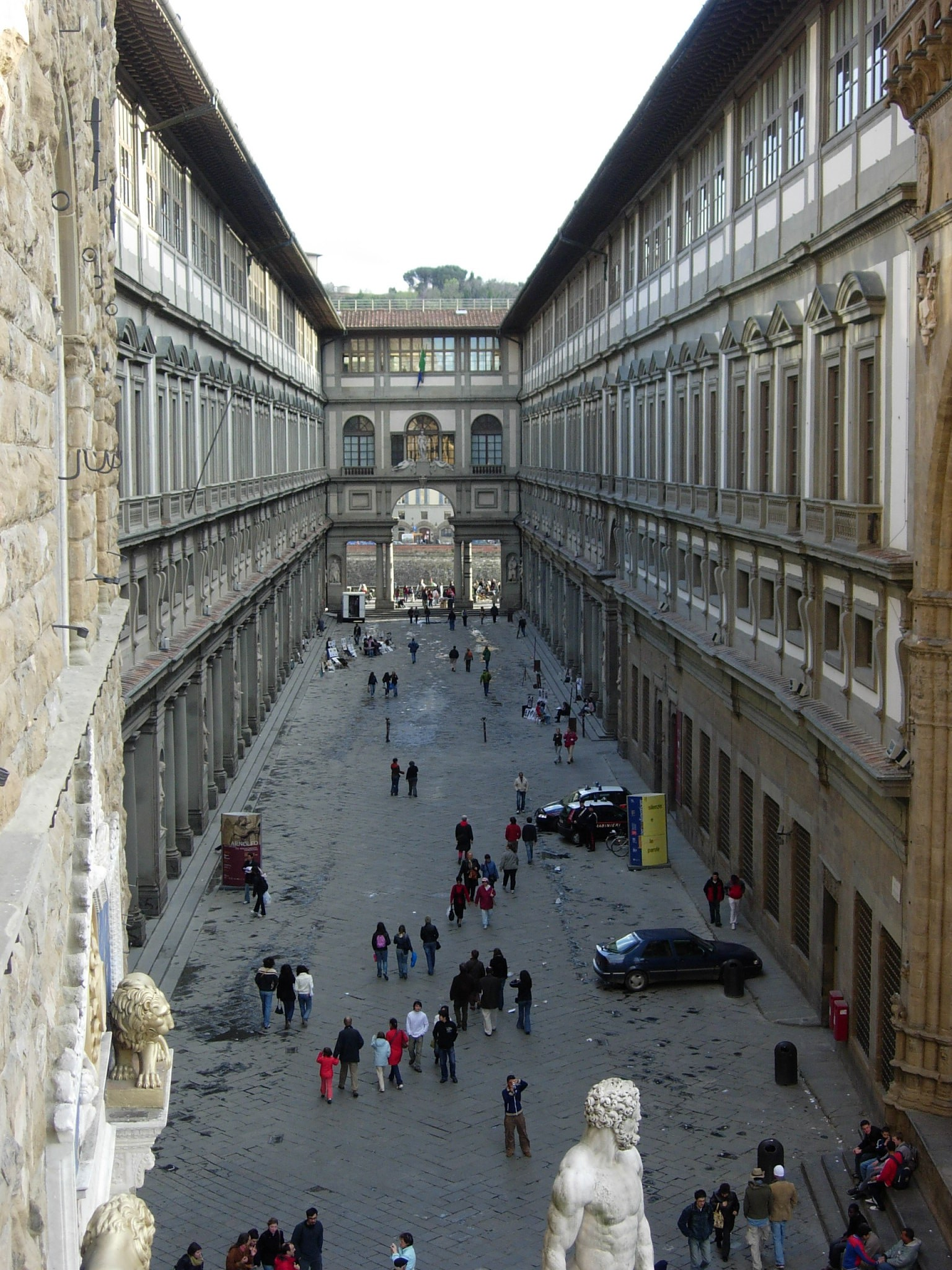 A view at Galleria degli Uffizi from the front balcony of Palazzo Vecchio.